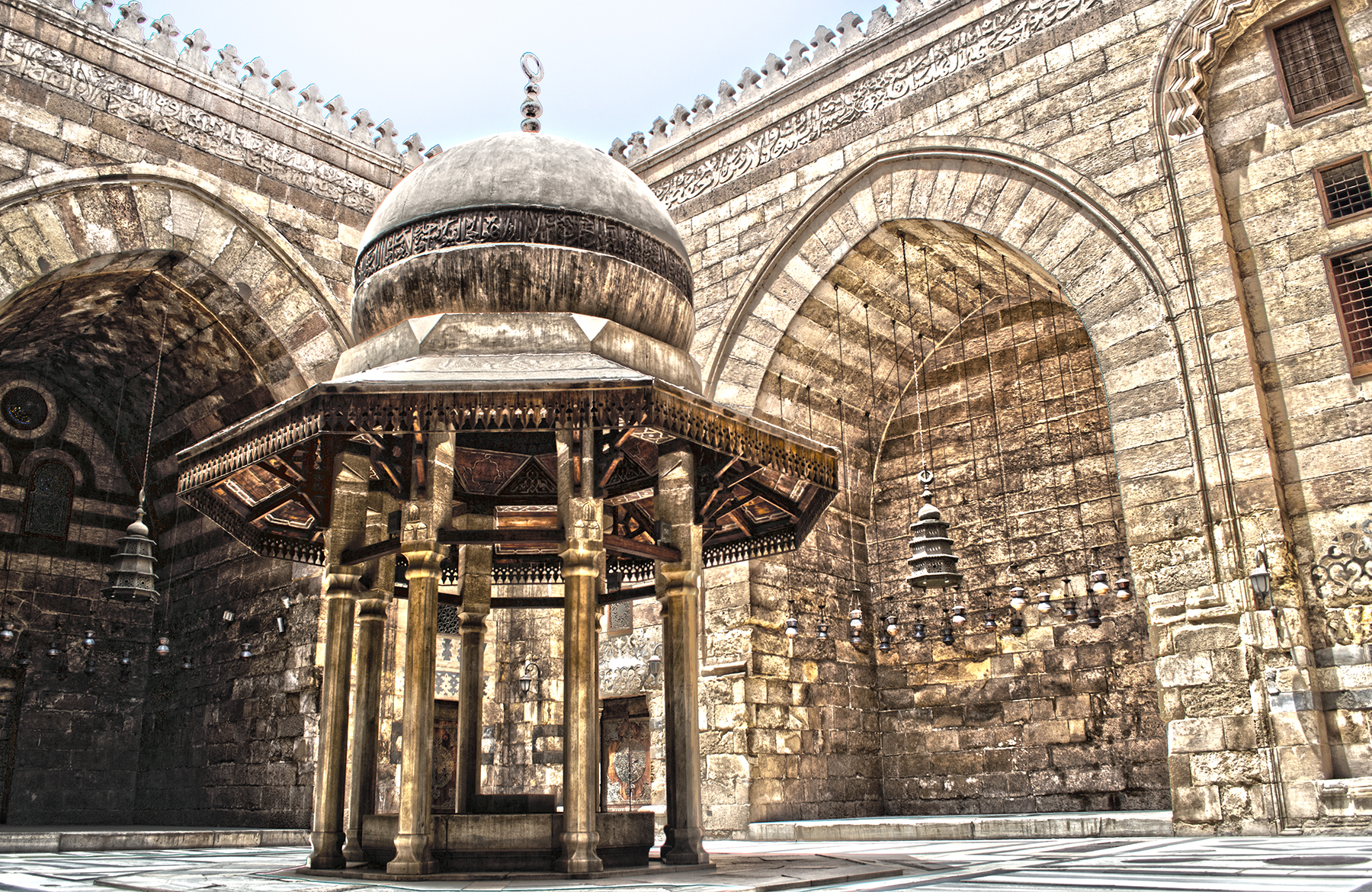 Islamic pre-prayer washing and cleansing water supply called "Maydaa" at Masjid al-Sultan Barquq in Al Moez Street, Cairo